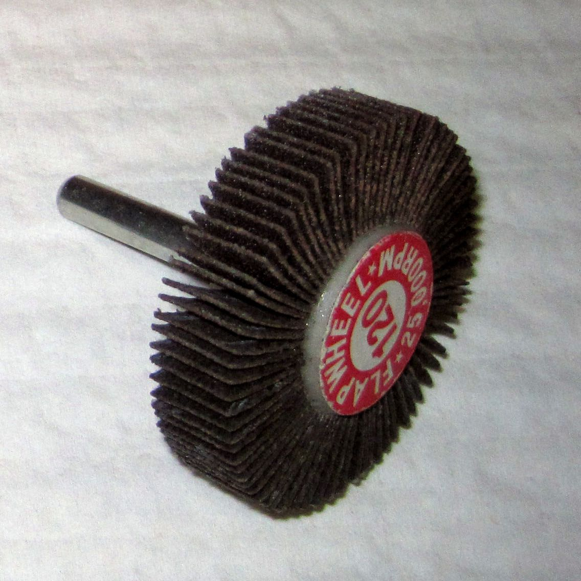 coated abrasives: flapwheel